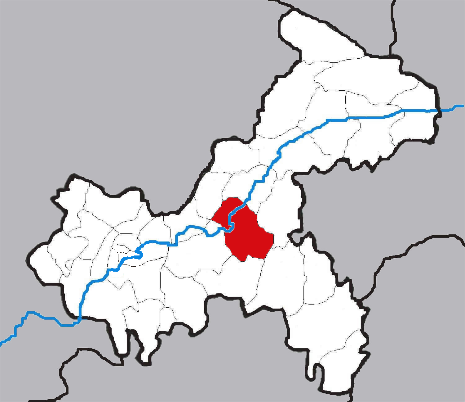 Administration maps of Chongqing, China